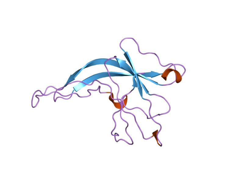 Cartoon representation of the molecular structure of protein registered with 1ifg code.